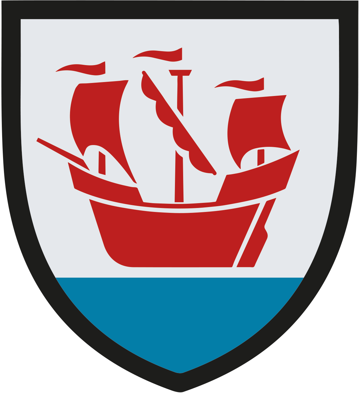 Öregrund City Coat of Arms